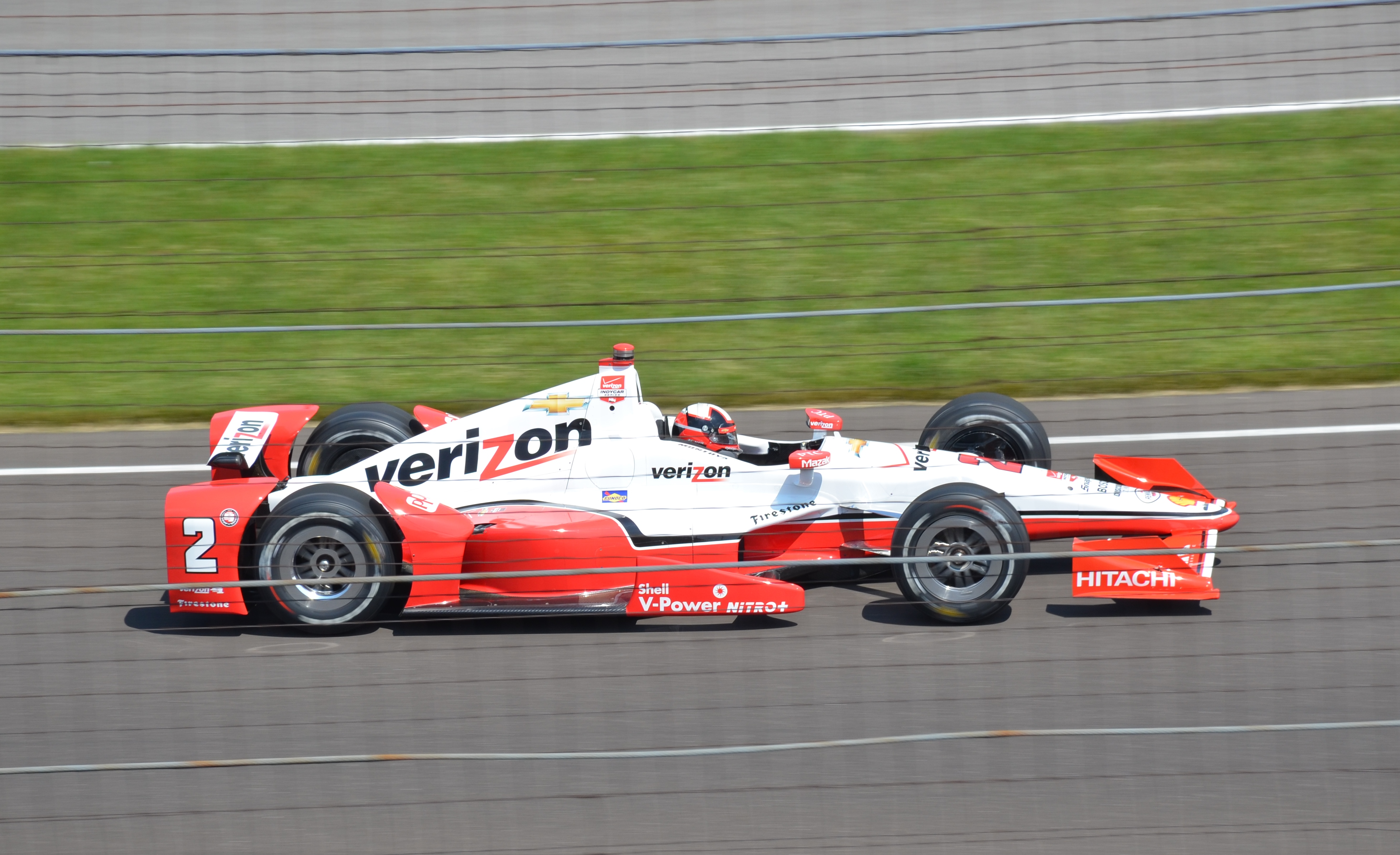 Juan Pablo Montoya at the 2015 Indianapolis 500